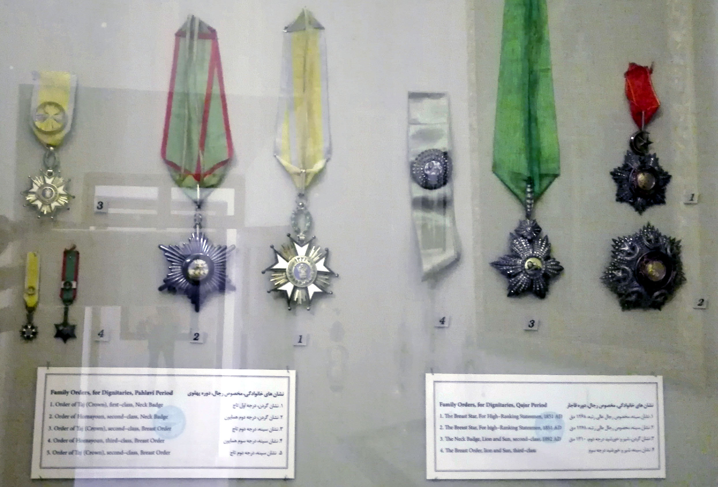 Old Iranian orders from Qajar and Pahlavi from Moqadam museum